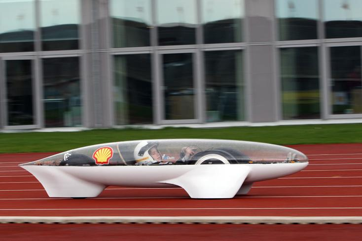 Ecorunner H2